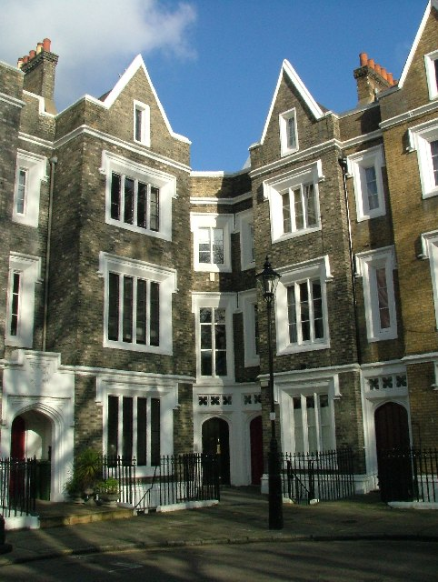 Lonsdale Square, Islington. A very unusual square due to the architectural style. This gothic style runs all the way round. In this corner there are three doors. The corner house must be like a slice of cake.